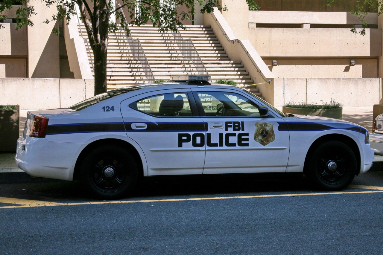 FBI Police Officers provide protective security for FBI personnel and facilities and also perform law enforcement duties at and around FBI facilities. The primary mission of FBI Police Officers is to deter or respond to a terrorist attack, or other criminal acts, at and around FBI facilities. FBI Police Officers perform duties such as identification checks, roving patrols, and unscheduled perimeter and internal patrols. Officers also monitor electronic intrusion and communications systems. FBI Police Officers are stationed in Washington, D.C. (FBI Headquarters and the Washington Field Office); Quantico, VA (FBI Academy, FBI Laboratory); New York City (New York Field Office); and Clarksburg, WV (FBI Criminal Justice Information Services Division).